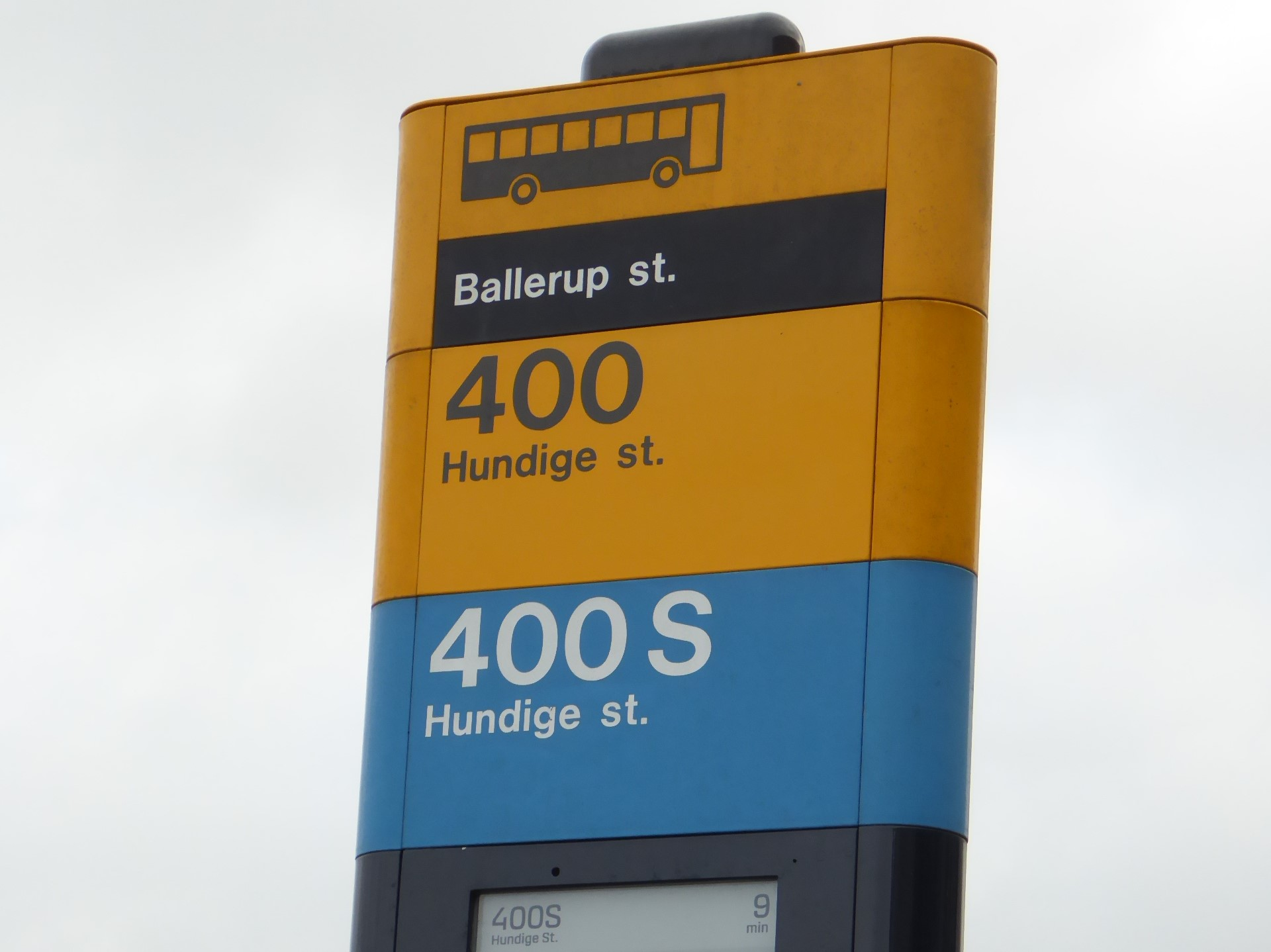 Bus stop for line 400S and 400 at Ballerup Station in Copenhagen. Line 400 replace line 400S in the evening.